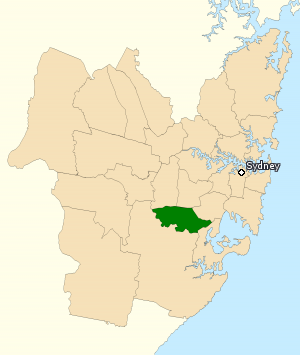 Incorporates or developed using Administrative Boundaries ©PSMA Australia Limited licensed by the Commonwealth of Australia under Creative Commons Attribution 4.0 International licence (CC BY 4.0). Derived from State and Territory Boundaries from the Australian Bureau of Statistics under Creative Commons Attribution 2.5 Australia license (CC BY 2.5 AU)